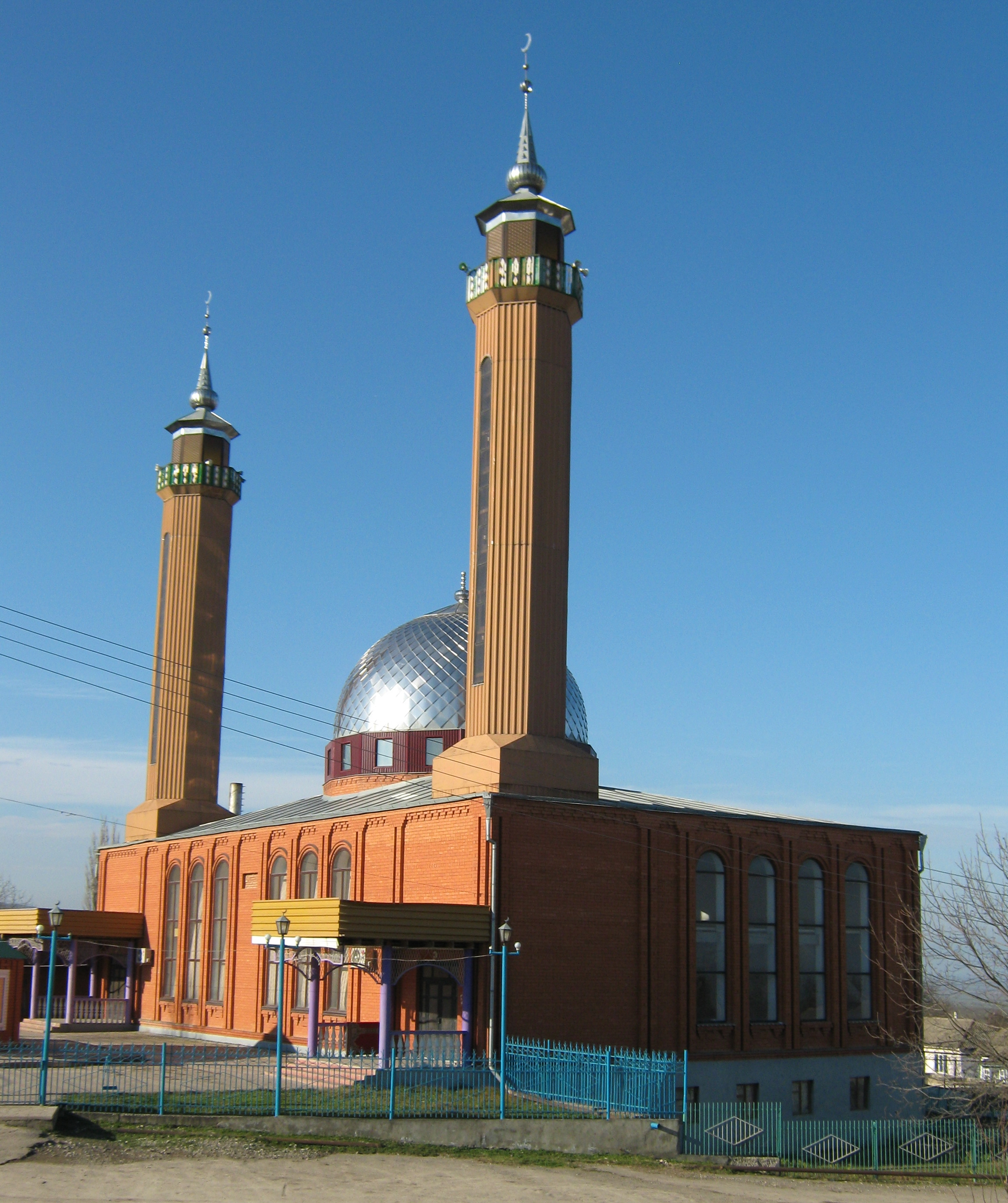 The mosque is located in the village Oyskhar